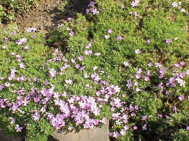 Species: Phlox diffusa Family: Polemoniaceae Image No. 2